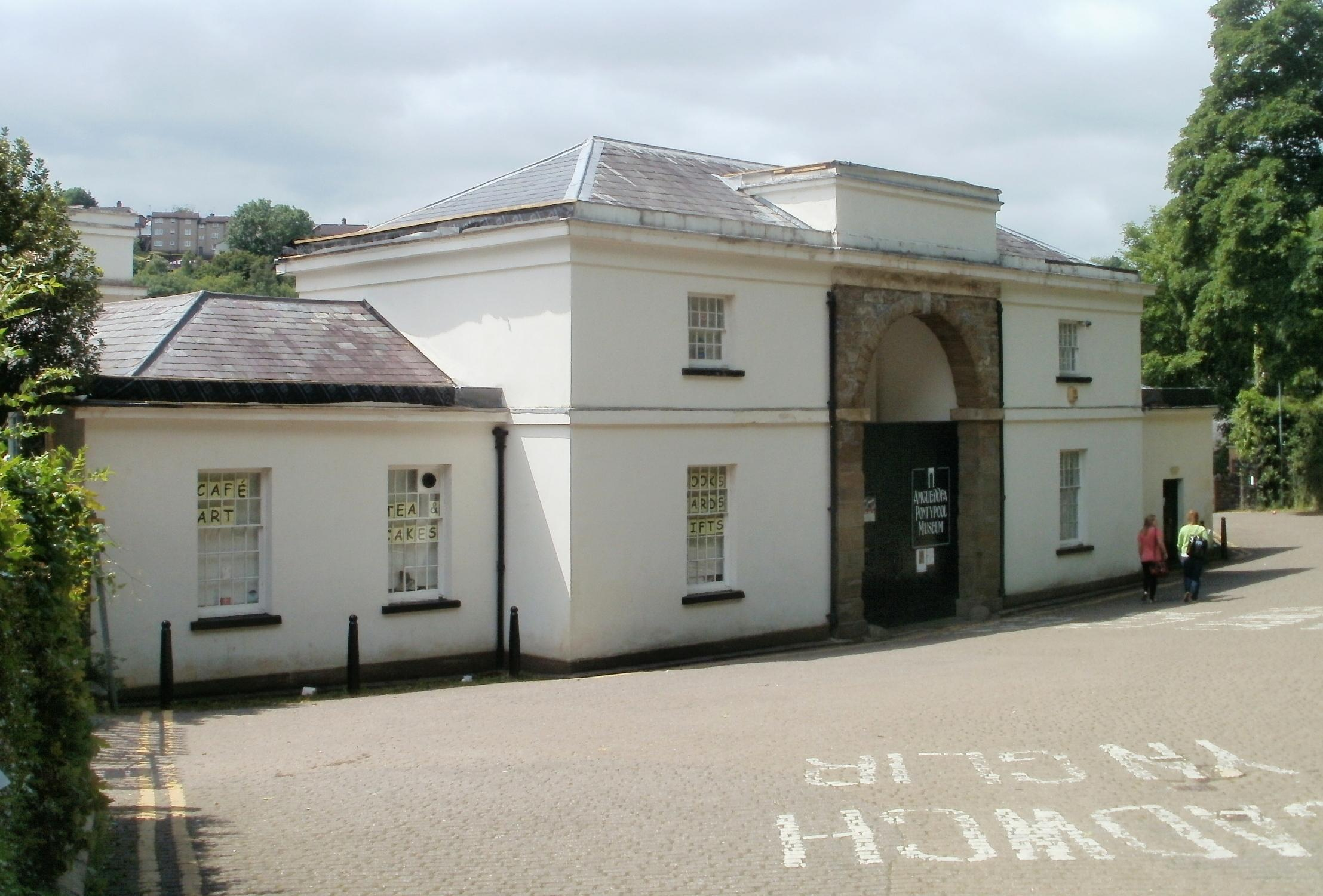 The museum is on the western side of Pontypool Park, near the Park Road entrance. The museum occupies a converted Georgian stable block, with central courtyard, stone archway and a cobbled walkway. The museum houses a collection of local artefacts including a display of one of Pontypool's most famous products, japanware.